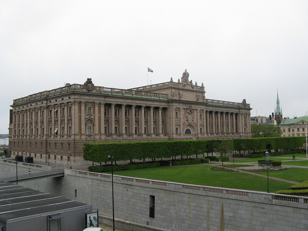 Riksdag